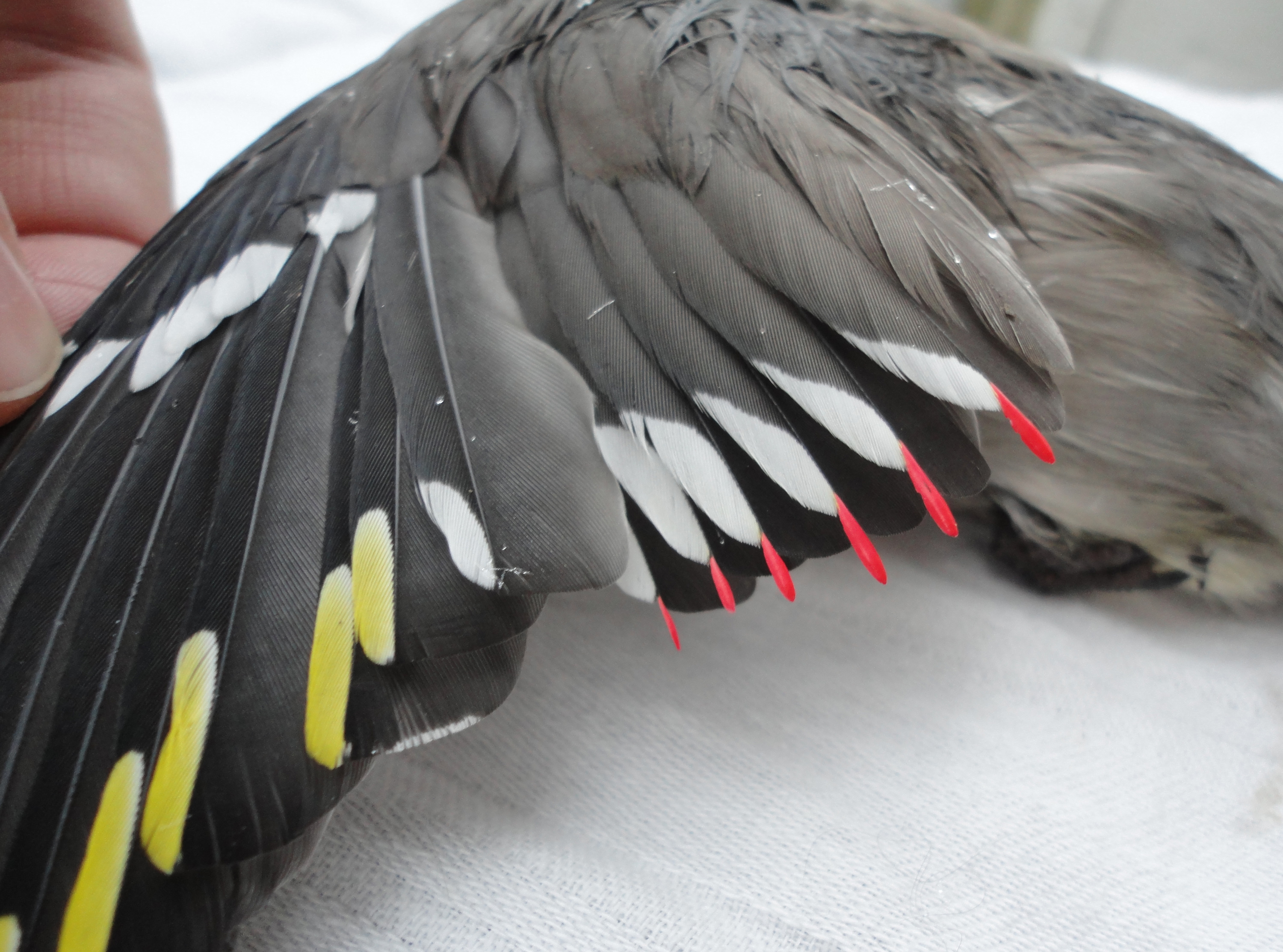 The bright red tips on a wing of a (dead) Bohemian Waxwing